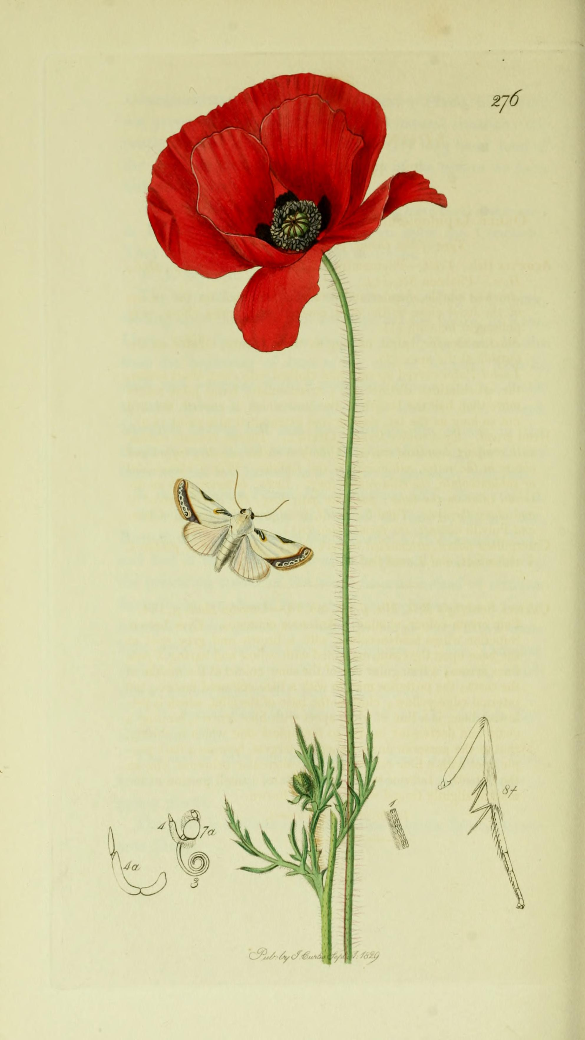 An illustration from British Entomology by John Curtis. Acontia catena or Acontia nitidula (Brixton Beauty Moth). British status uncertain but in check lists.